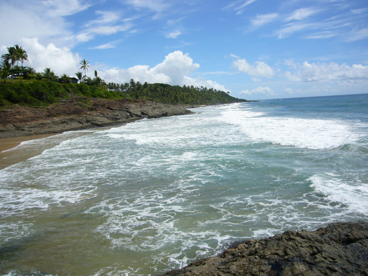 Praia da Tiririca, Brasil.